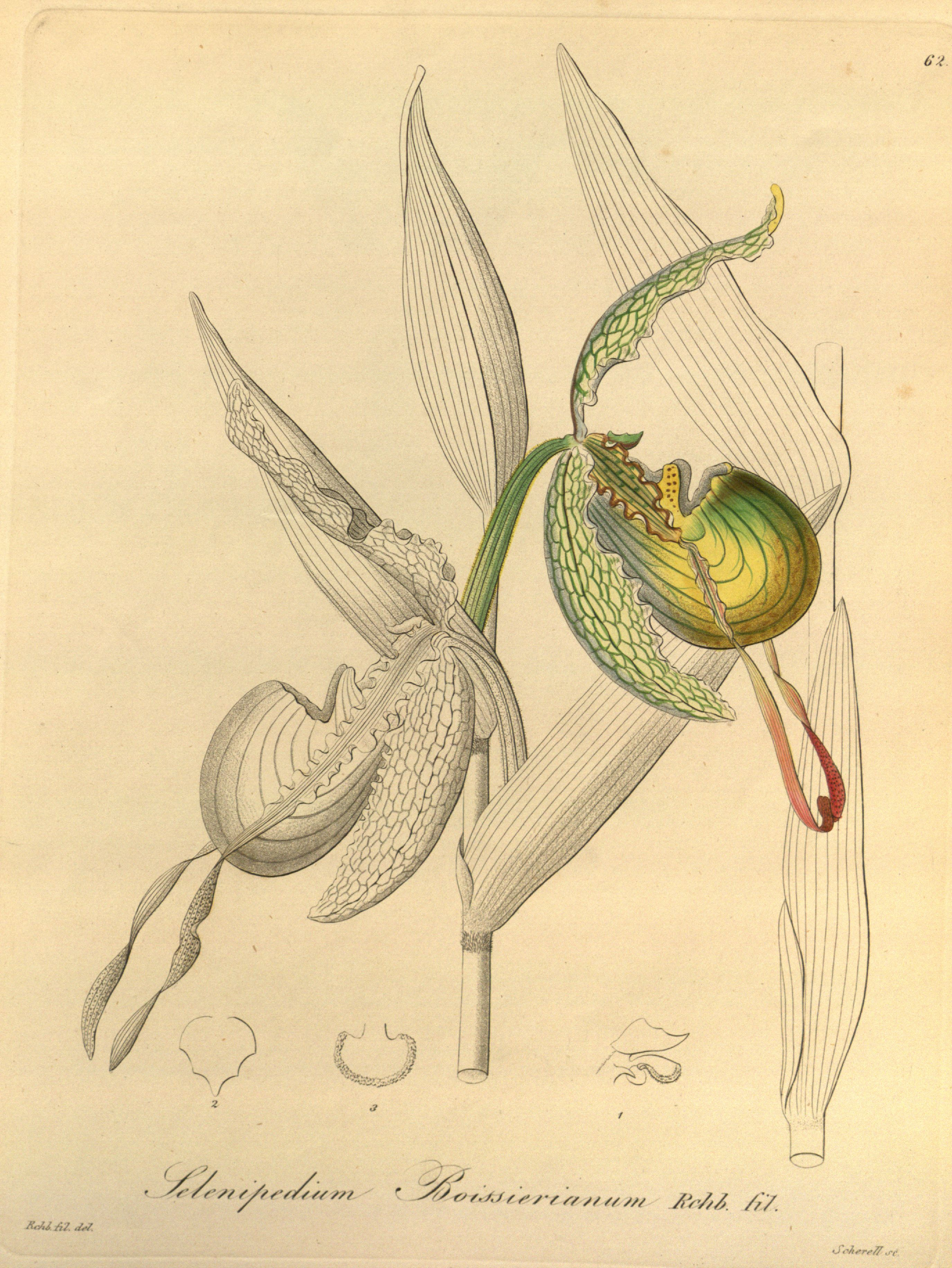 Illustration of Phragmipedium boissierianum (as syn. Selenipedium boissierianum)